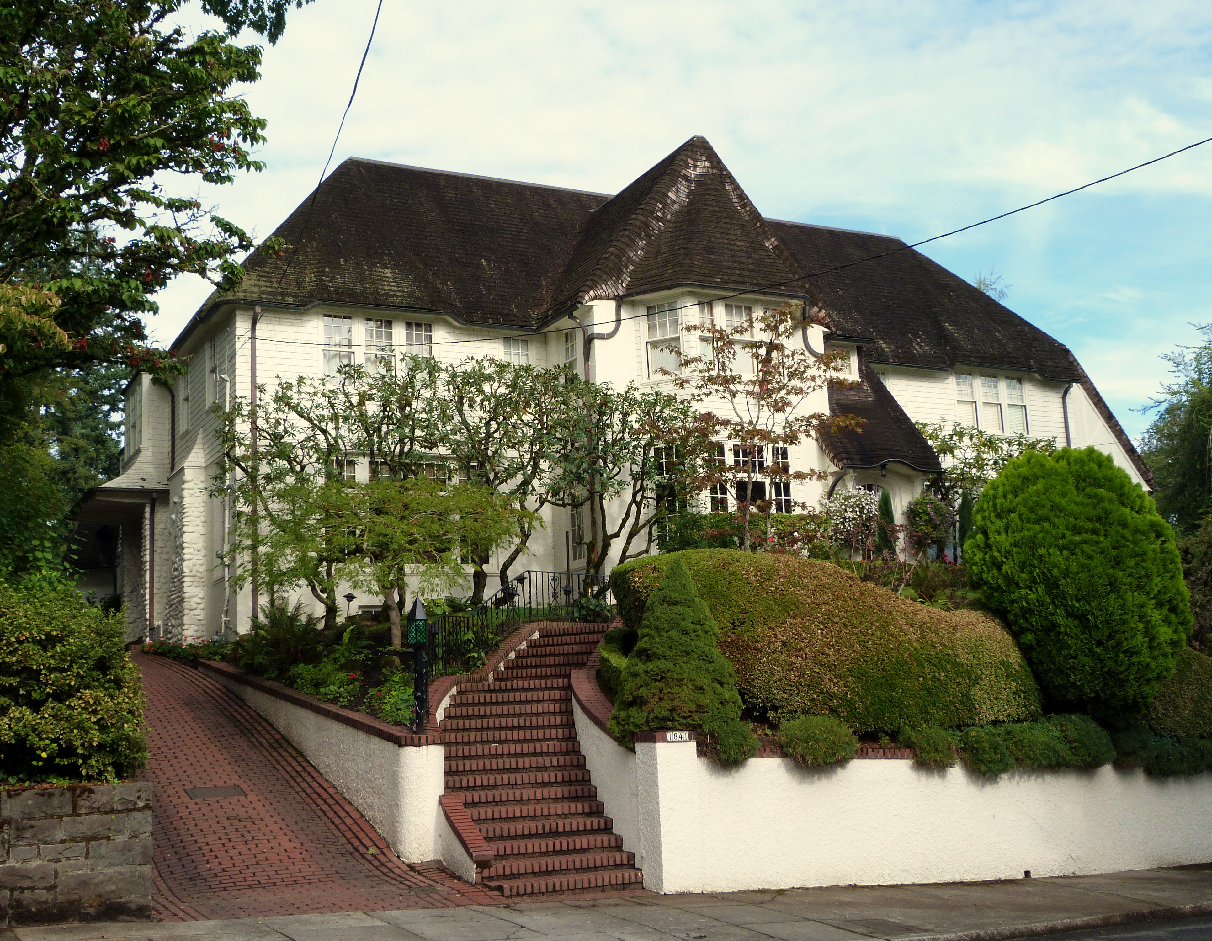 The historic Cora Bryant Wheeler House (built 1923), located at 1841 Southwest Montgomery Drive in Portland, Oregon, United States, is listed on the US National Register of Historic Places.